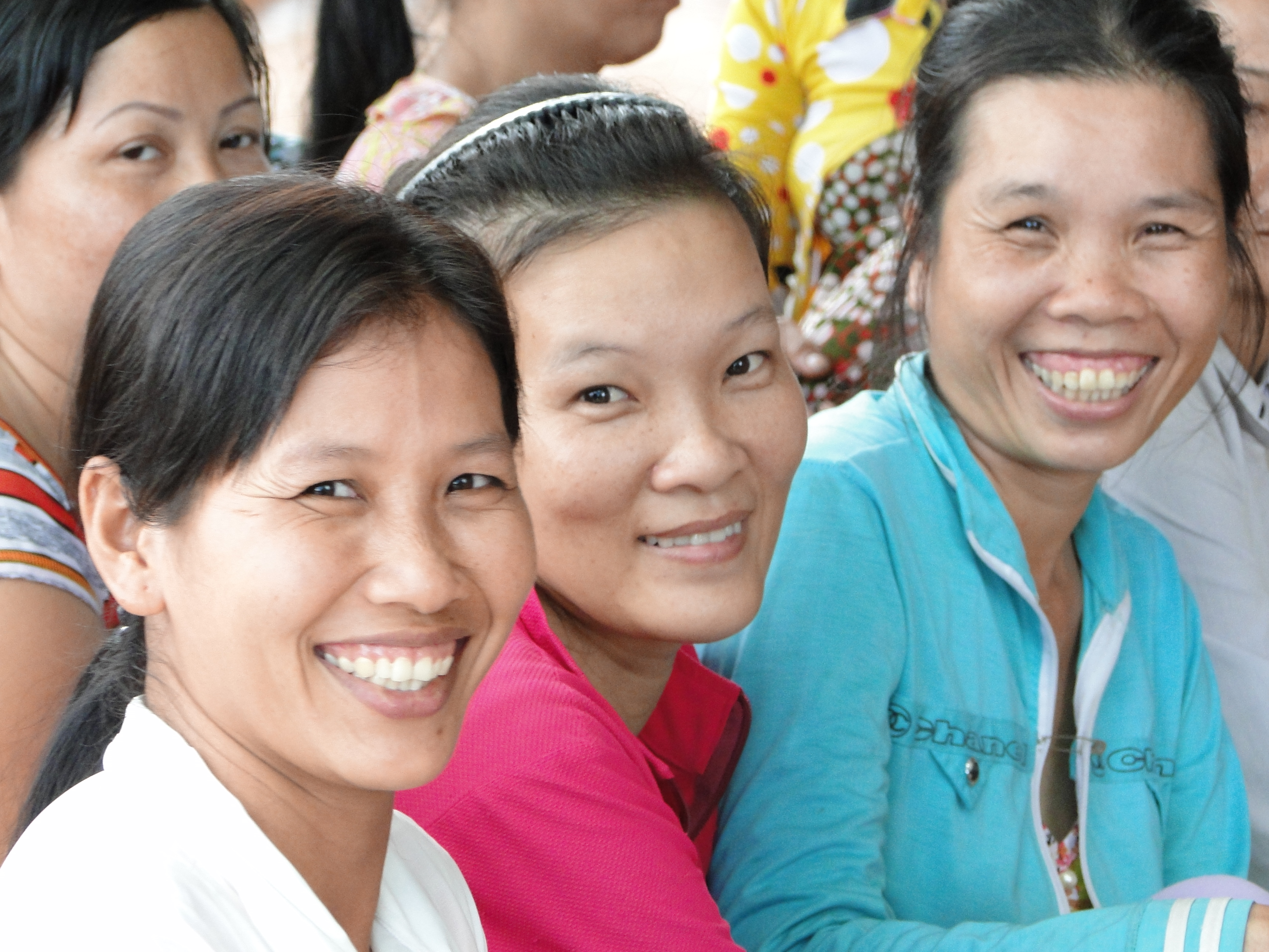 vietnamese women